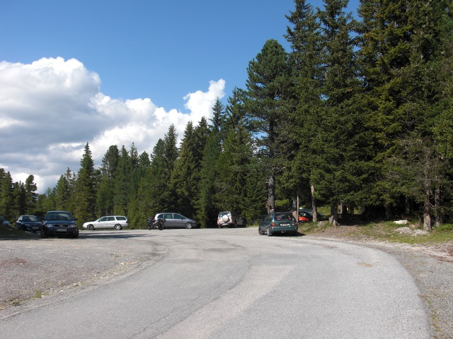 Silzer Sattel: pass summit